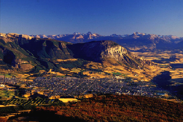 Aerial view of Coihaique, Chile